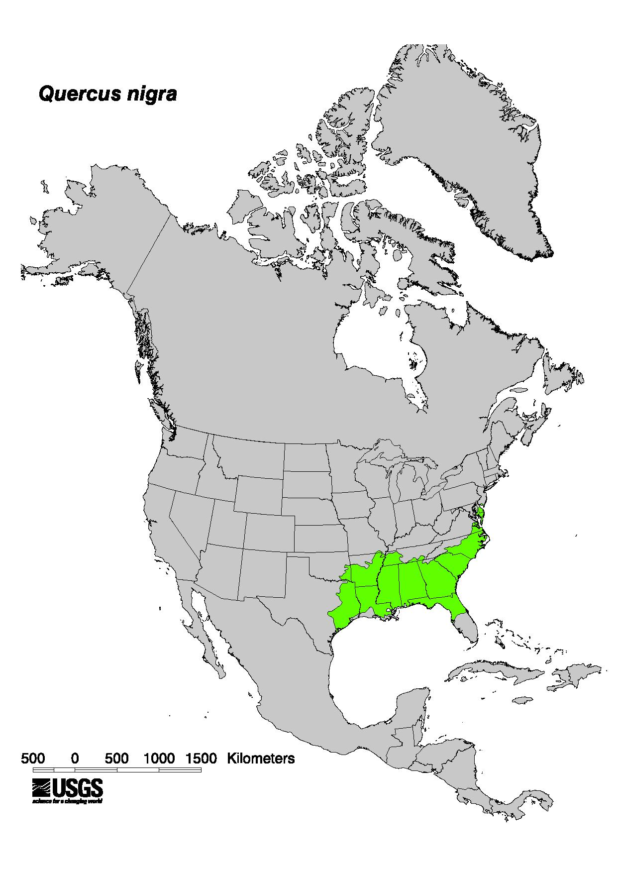 Quercus nigra Range Map Digital representation of "Atlas of United States Trees" by Elbert L. Little, Jr. 1999. U.S. Geological Survey. [1]